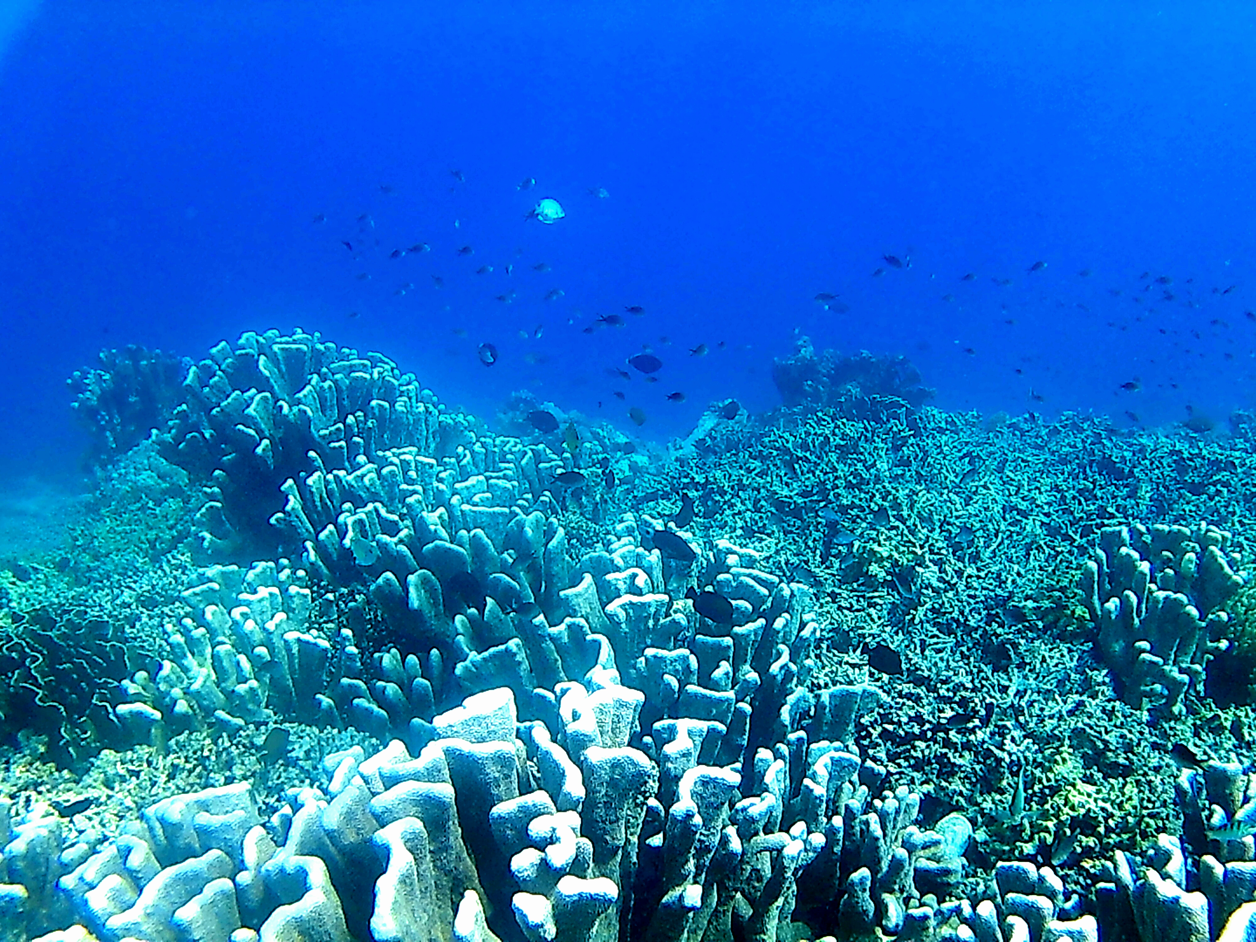 Aquarium of the Amsterdam Island - Meossu , Tambrauw, West Papua Indonesia